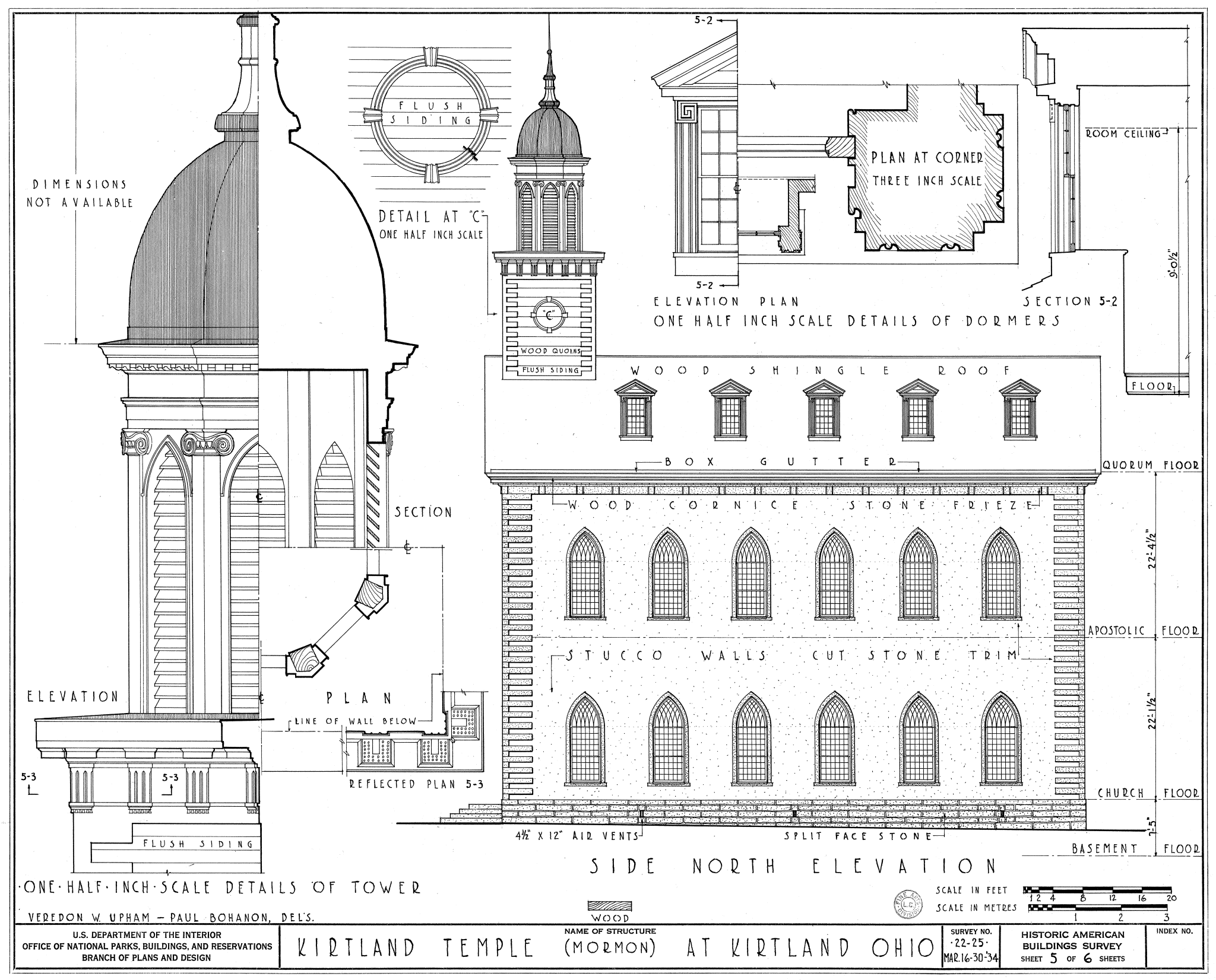 Architectural sketch of the Kirtland Temple, Kirtland, Ohio, USA. A National Historic Landmark. The Temple was build from 1833-1836 by the Church of Jesus Christ Latter Day Saints under their prophet Joseph Smith, jr. It is today owned and used by the Community of Christ